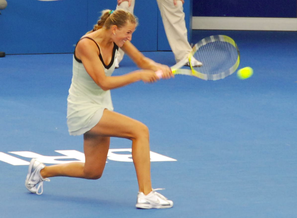 Victoria Azarenka at 2009 Brisbane International, Brisbane, Australia.